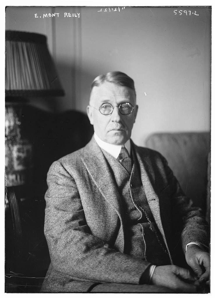 Emmet Montgomery Reily.